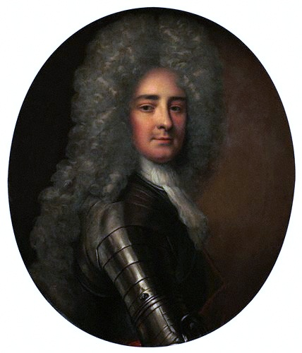 Anthony Hamilton, by unknown artist. Antoine (or Anthony) Hamilton (1646 - 21 April 1720) was a French classical author. He is especially noteworthy from the fact that, though by birth he was a foreigner, his literary characteristics are more decidedly French than those of many of the most indubitable Frenchmen. This version is lower-resolution than File:Anthony Hamilton from NPG.jpg, but has color.